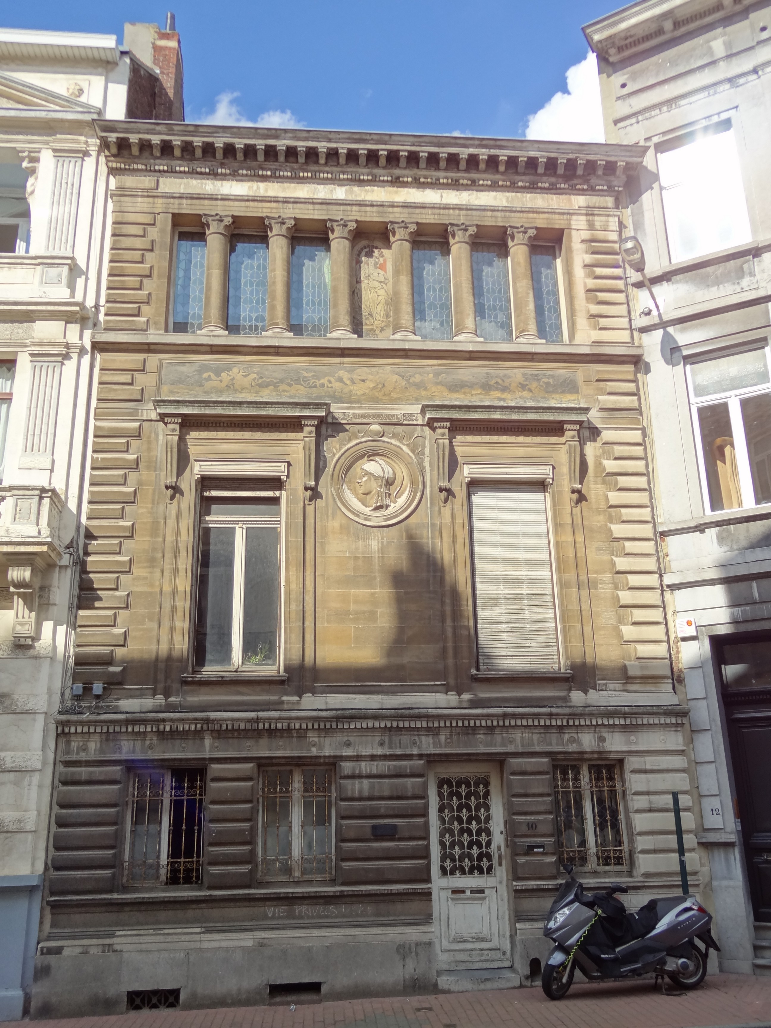 Faiderstraat 10, Brussels